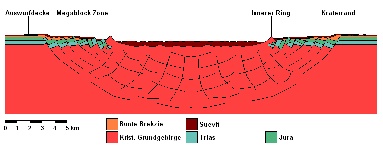 Nördlinger Ries, schematic drawing of cratering event. Final crater. German Labels. Simplified, schematic drawing based on the references listed below.